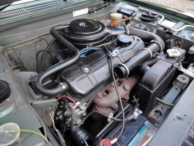 1288 cc carburetted Peugeot XL3 engine in a 1976 Peugeot 304 Break. Soon after this car was built, this engine was switched for the shorter stroke but similar XL5 (1290 cc).